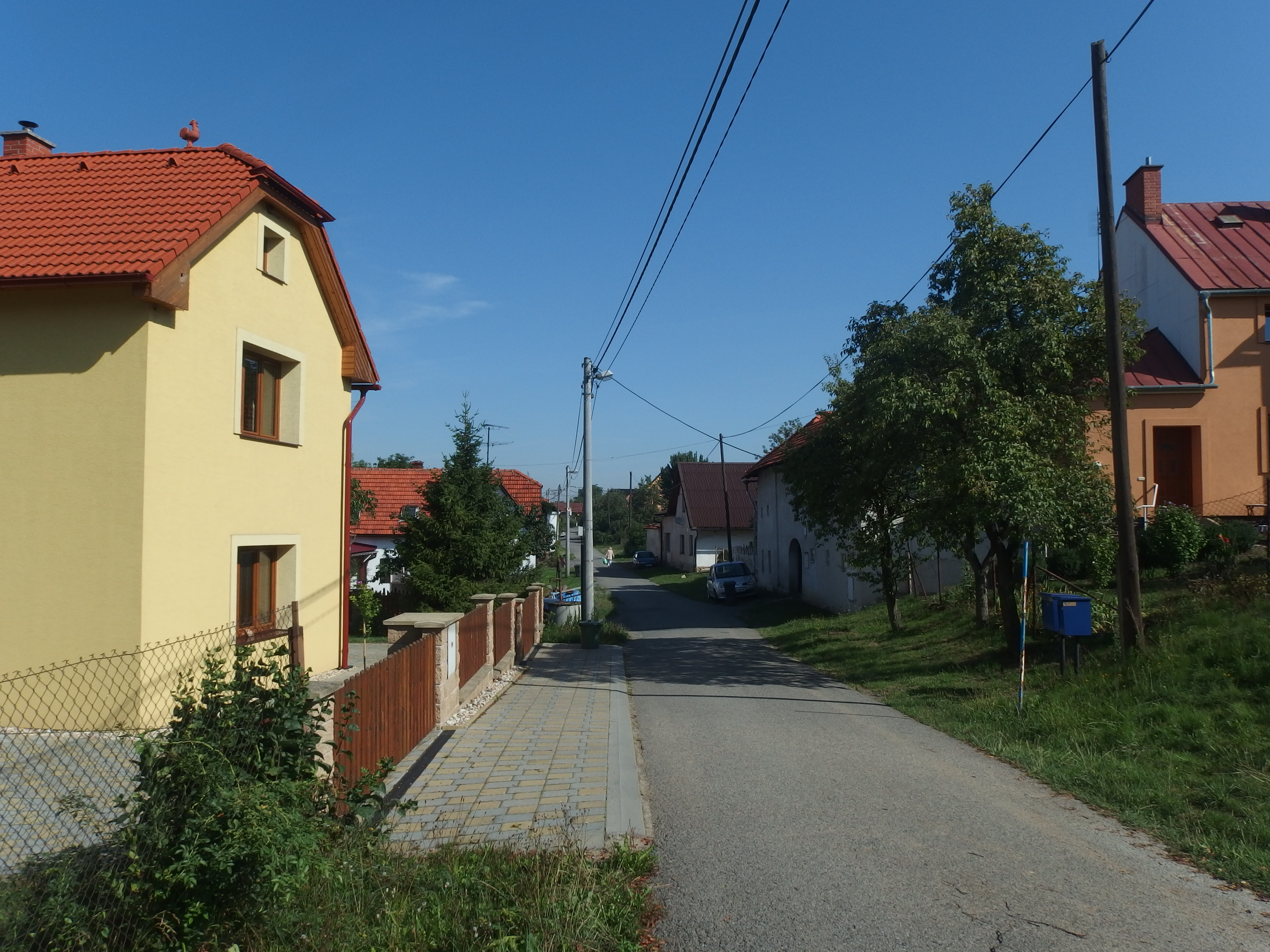 Jeseník nad Odrou, Nový Jičín District, Czech Republic, part Polouvsí.